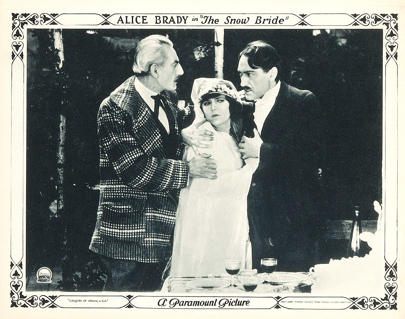 Lobby card for the 1923 film The Snow Bride.